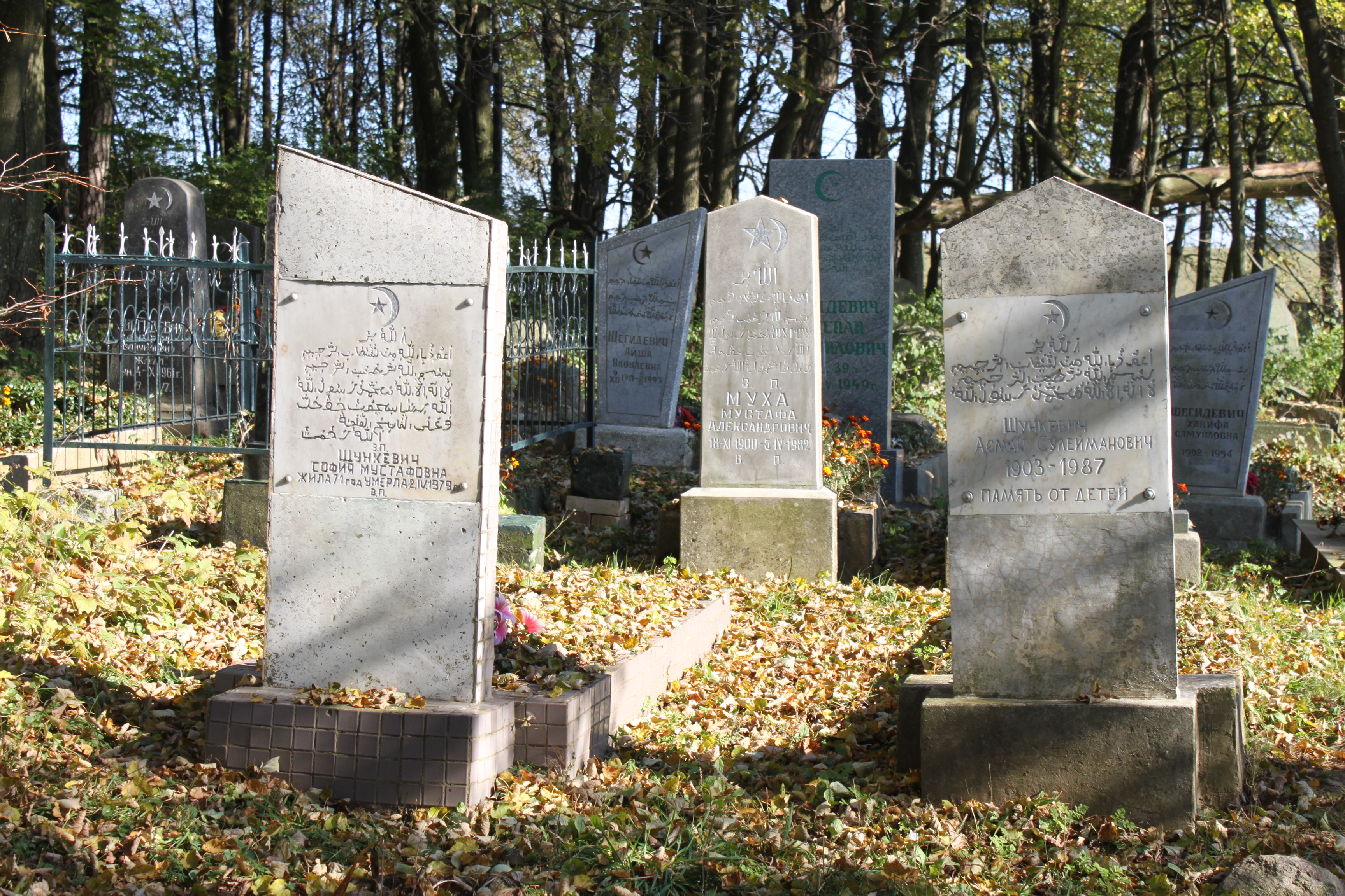 Tatar cemetery in Mir, Belarus Беларуская (тарашкевіца): Татарскія могілкі ў Міры